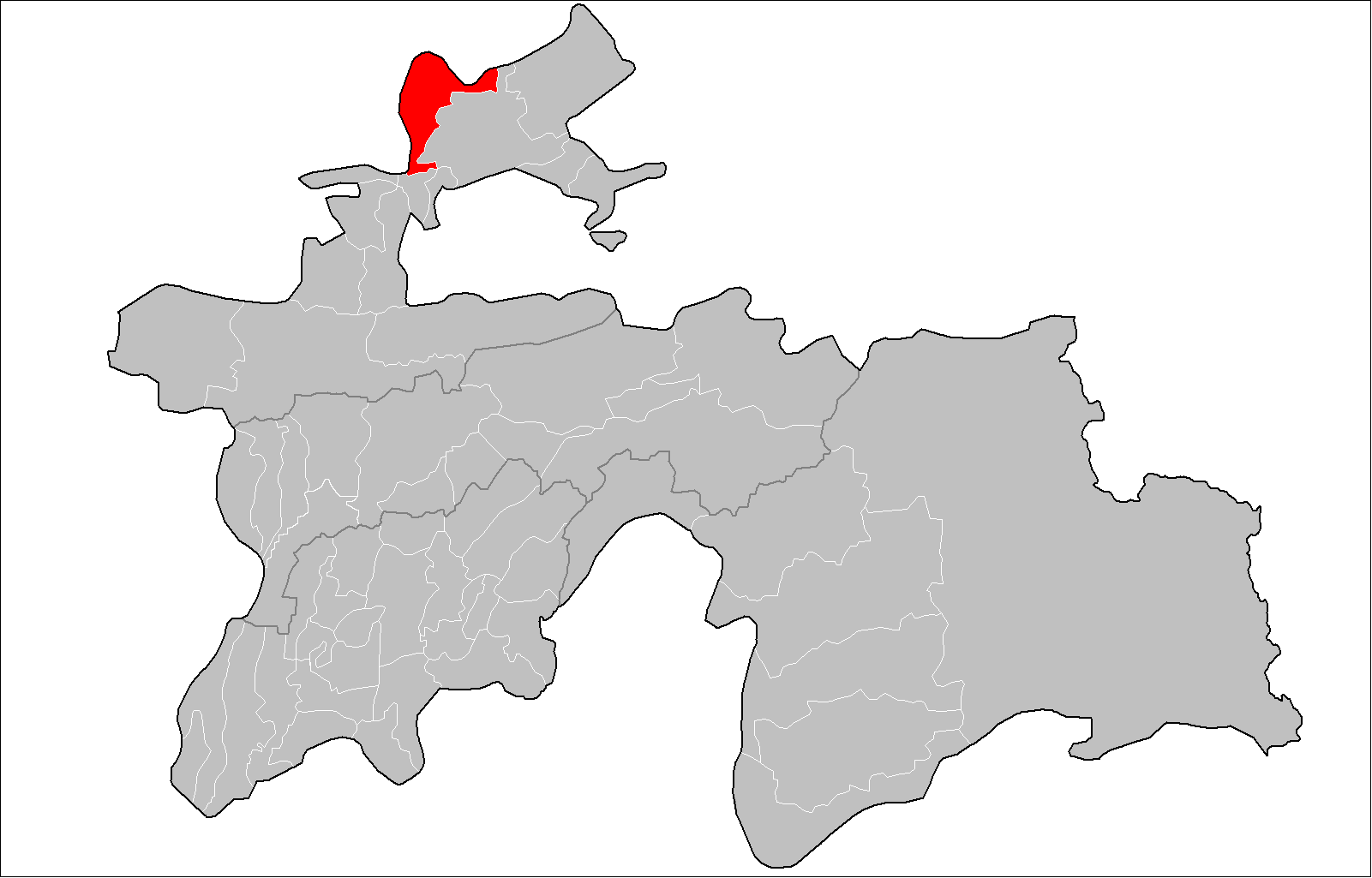 Location of Mastchoh District in Tajikistan